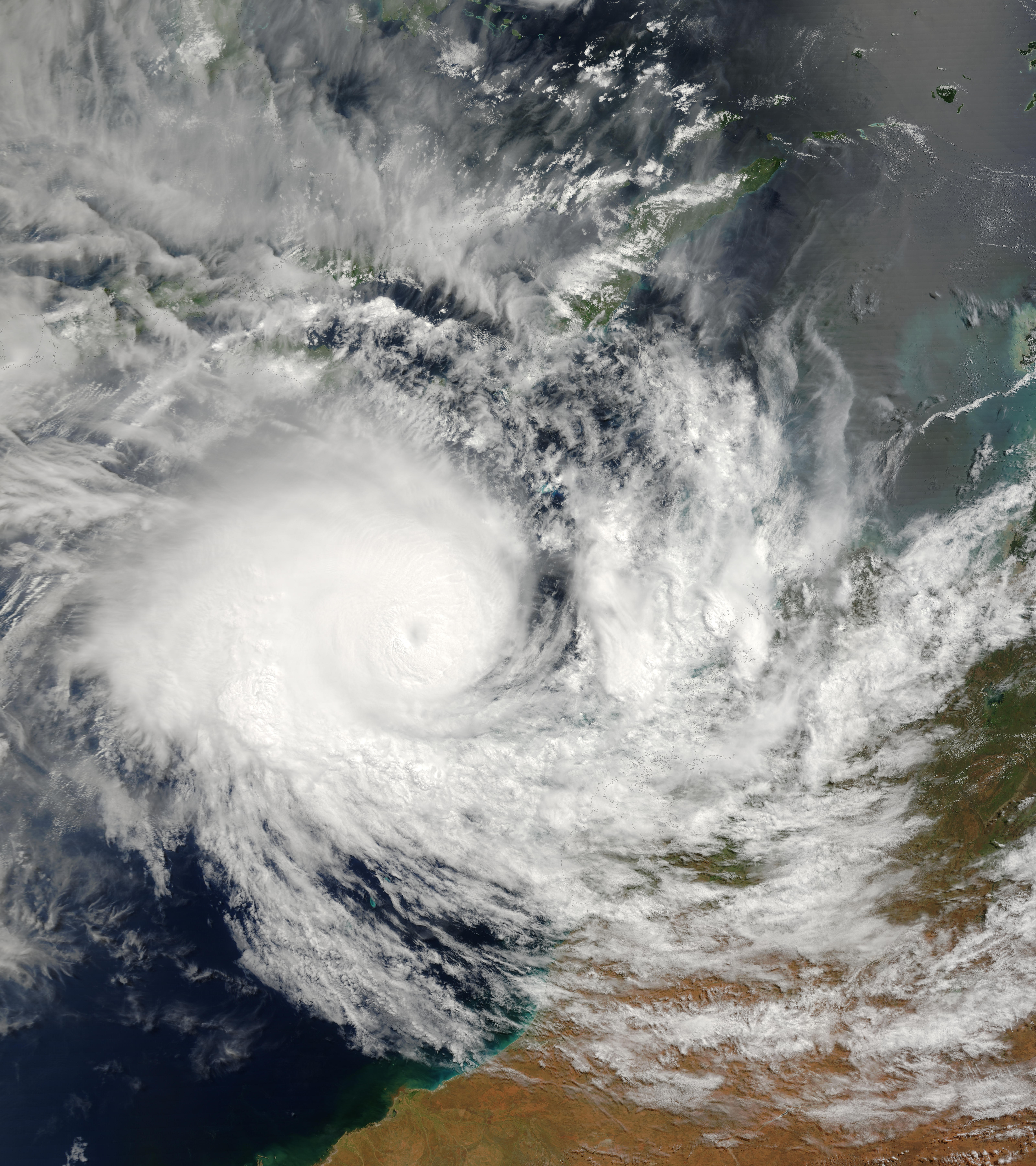 The Moderate Resolution Imaging Spectroradiometer (MODIS) onboard NASA’s Terra satellite captured this true-color image of Tropical Cyclone Fay just hours before it would begin turning back towards the Western Australian coast. The cyclone was downgraded from a category five to a category four system overnight and was expected to begin moving south. As a result, Australia’s Bureau of Meteorology issued new advisories for coastal and island communities between Cape Leveque and Mardie, along the Pilbara coast.